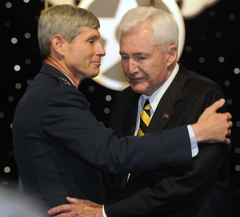 Air Force Chief of Staff Gen. Norton Schwartz congratulates former 1st Lt. Dolphin Overton III today after presenting him the Distinguished Service Cross during the Air Force Association Air and Space Conference and Technology Exposition. Overton received the medal after the Military Board of Corrections validated his actions of heroism while serving in Korea in 1952.